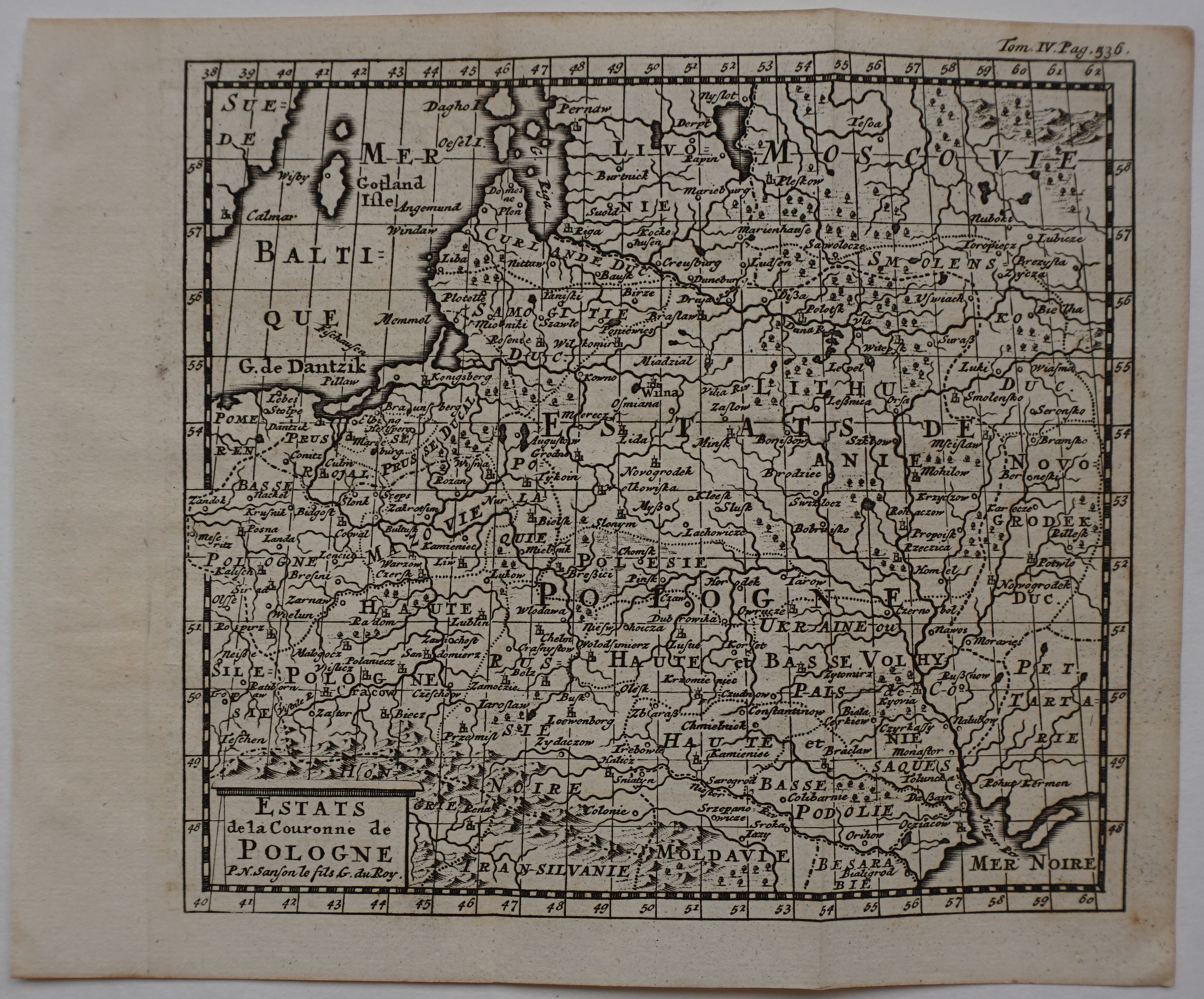 Sanson’s map of Poland, Lithuania, Belarus and a portion of the Ukraine. Map comes from book “Introduction a L’Histoire Generale et politique de L’Univers”.